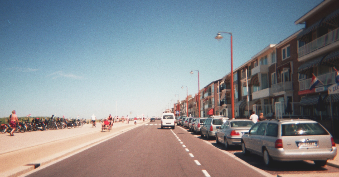 North side of the Boulevard in Katwijk. Picture taken at the sunny Saturday 16 July 2006.